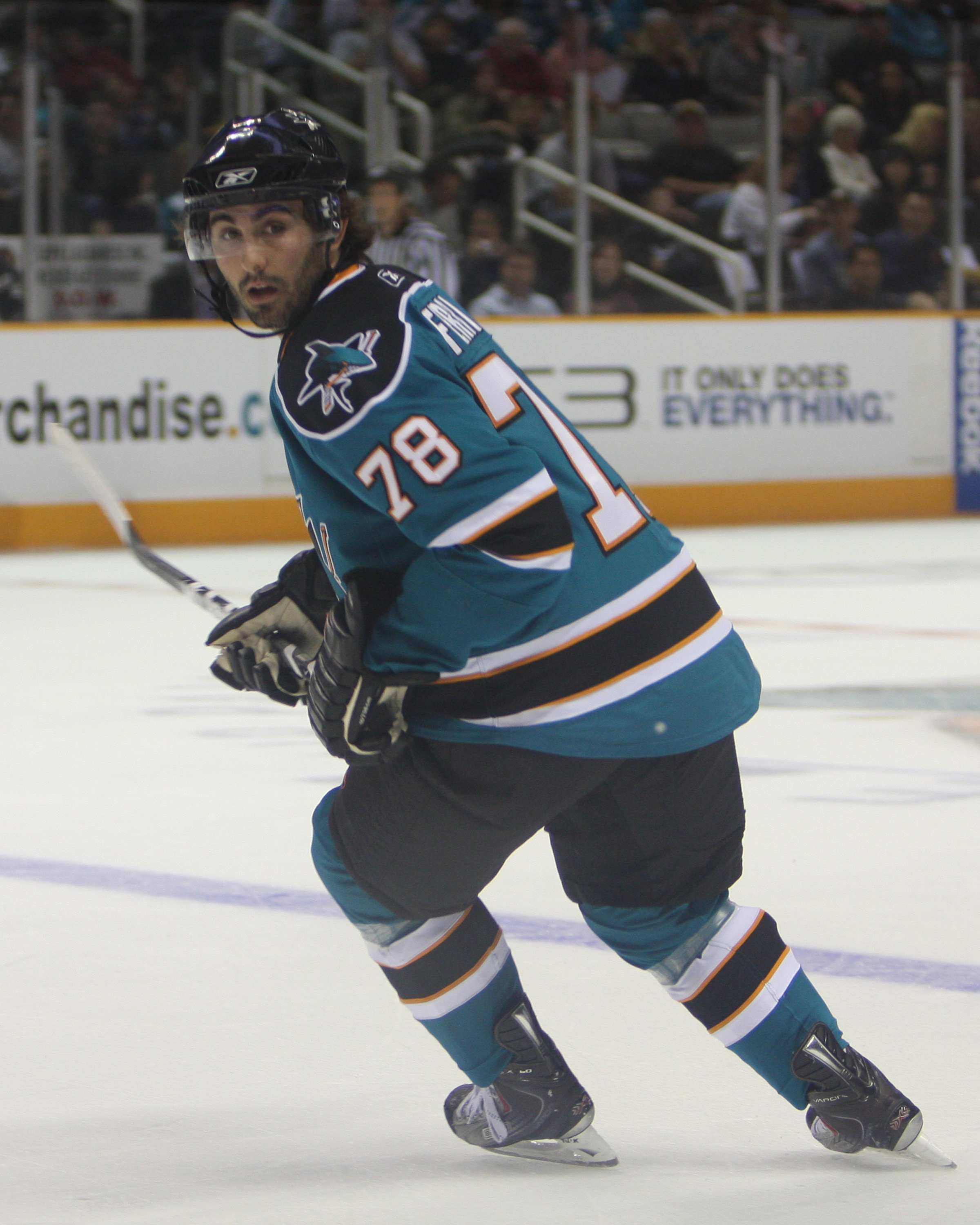 Benn Ferriero during the SJ Sharks Teal and White Game